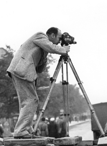 Siege of Warsaw by German forces in September of 1939: American photographer Julien Bryan films a scene during the siege of Warsaw. He stands atop a barricade of paving stones that had been erected to slow the advance of the German army. The baricade stood at Praski Hospital in Warsaw.